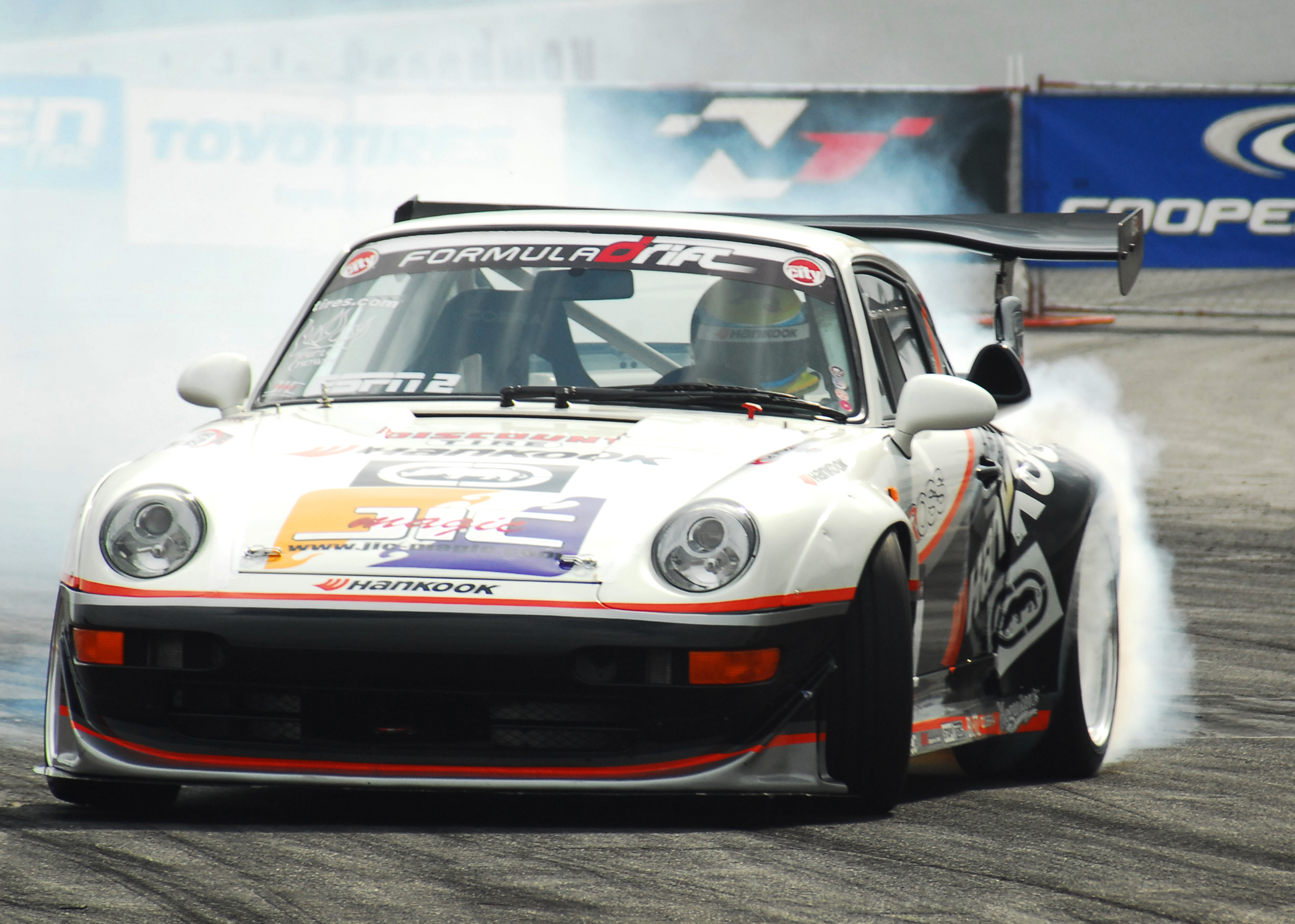 I took this picture on the warm up day for Formula D Finals at Irwindale Speedway. I was stoked to see the Drifting Porsche in real life. It had heard they were gonna have one running this year, and watch the footage as the season went on. And so now, I got to see it and take pictures!! Stoked!! Plus I found a couple spots to shoot from. NONE of the other photographers even came to 2 of the spots!! Every one is always so concerned with getting the head on shot from the middle of the 3 turn, they never look around. This isn't one of my spots, those might get posted later :)Porsche drift